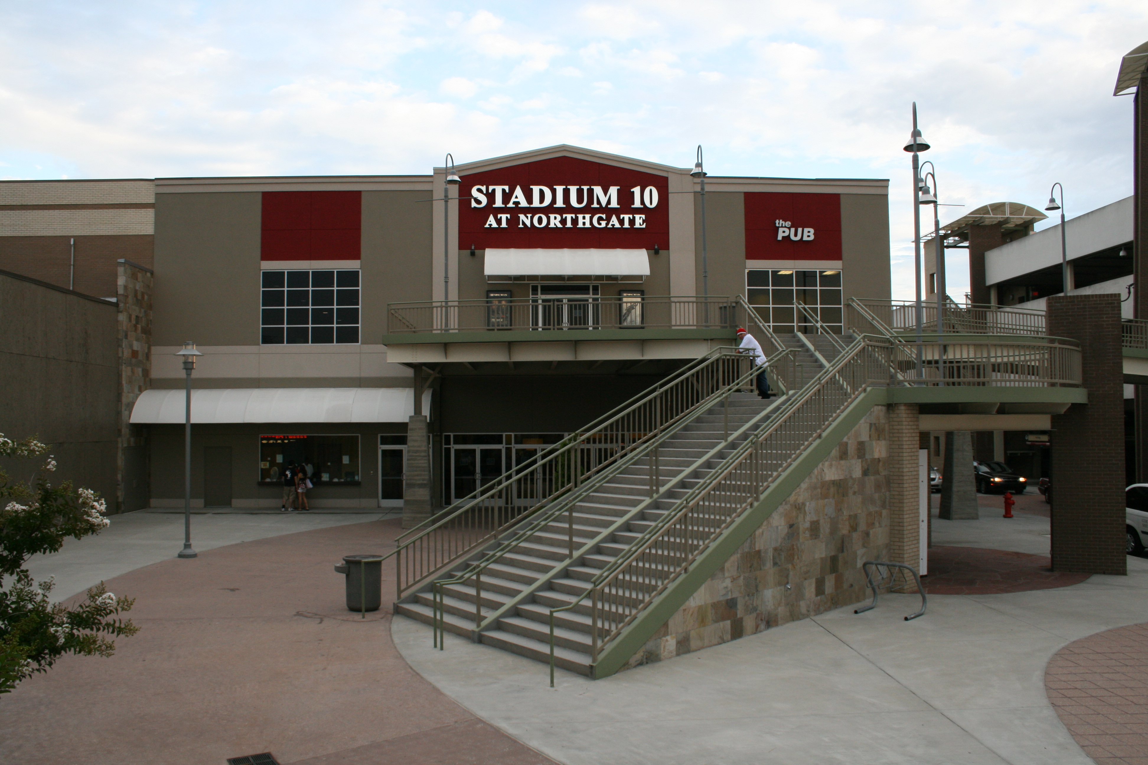 Stadium 10 cinema at Northgate Mall in the evening in Durham, North Carolina.